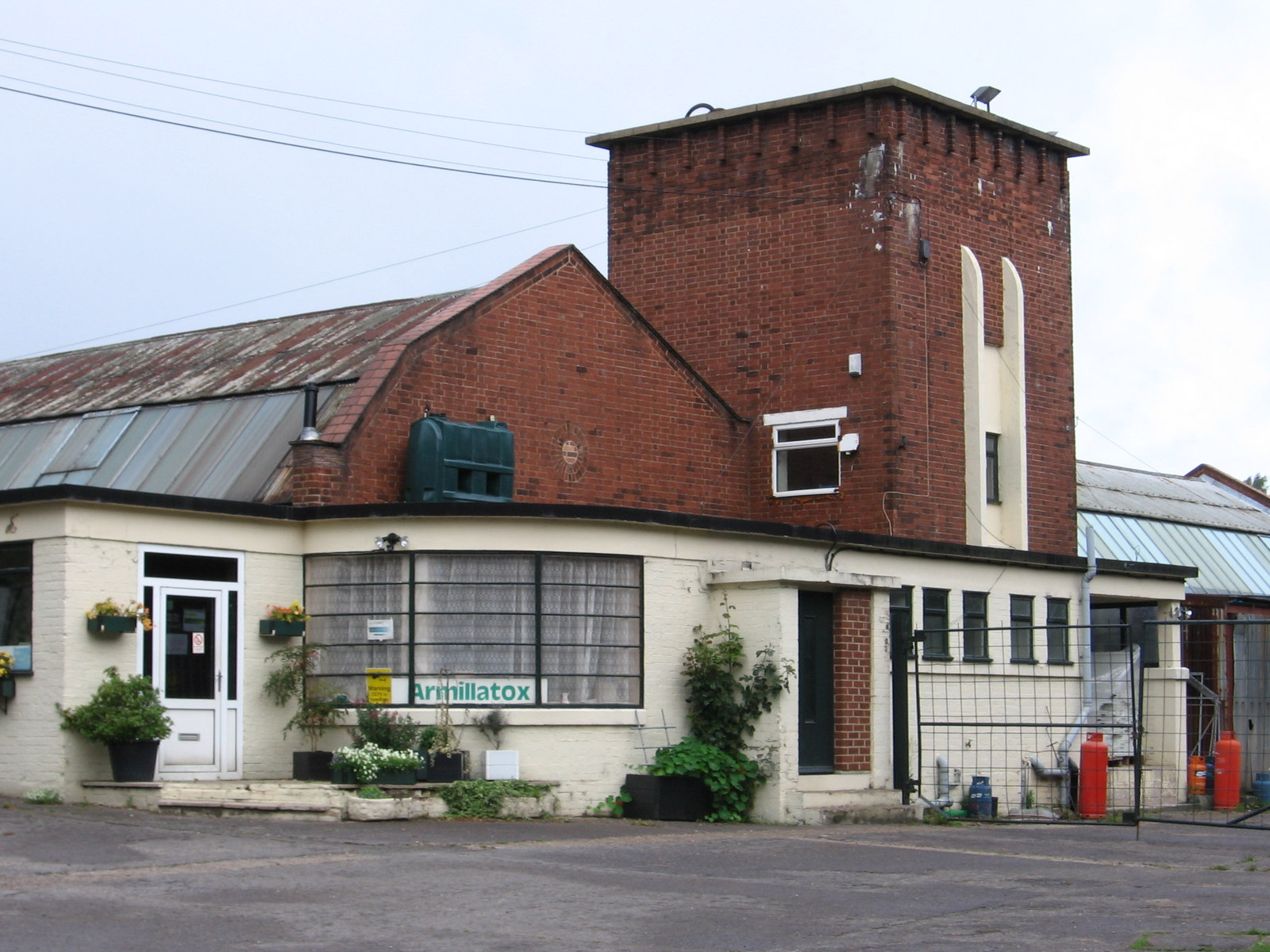 Morton - pithead building